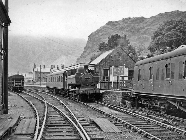 Blaenau Ffestiniog Central Station, with train to Bala View westward, to buffer-stops; terminus of ex-GWR line from Bala, closed 4/1/60. A new station was opened on this site on 25/5/82 to serve as the terminus of the line from Llandudno Junction, extended from the former North Station on 1/4/64 by a line built to serve Trawsfynydd Nuclear Power Station, also as the terminus of the revived narrow-gauge Ffestiniog Railway from Portmadoc. The train for Bala is headed by a 57XX 0-6-0 Pannier tank engine.